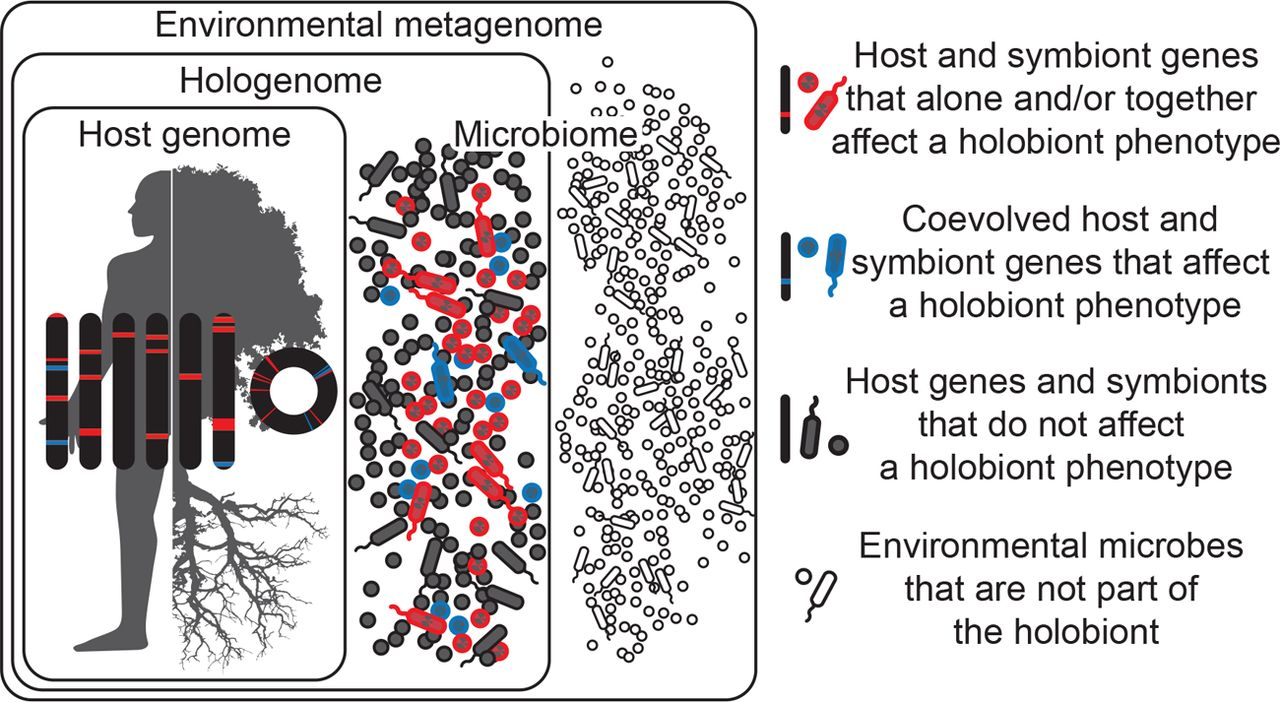 The holobiont phenotype Holobionts are entities comprised of the host and all of its symbiotic microbes, including those which affect the holobiont’s phenotype and have coevolved with the host (blue), those which affect the holobiont’s phenotype but have not coevolved with the host (red), and those which do not affect the holobiont’s phenotype at all (gray). Microbes may be transmitted vertically or horizontally, may be acquired from the environment, and can be constant or inconstant in the host. Therefore, holobiont phenotypes can change in time and space as microbes come into and out of the holobiont. Microbes in the environment are not part of the holobiont (white). Hologenomes then encompass the genomes of the host and all of its microbes at any given time point, with individual genomes and genes falling into the same three functional categories of blue, red, and gray. Holobionts and hologenomes are entities, whereas coevolution or the evolution of host-symbiont interactions are processes.